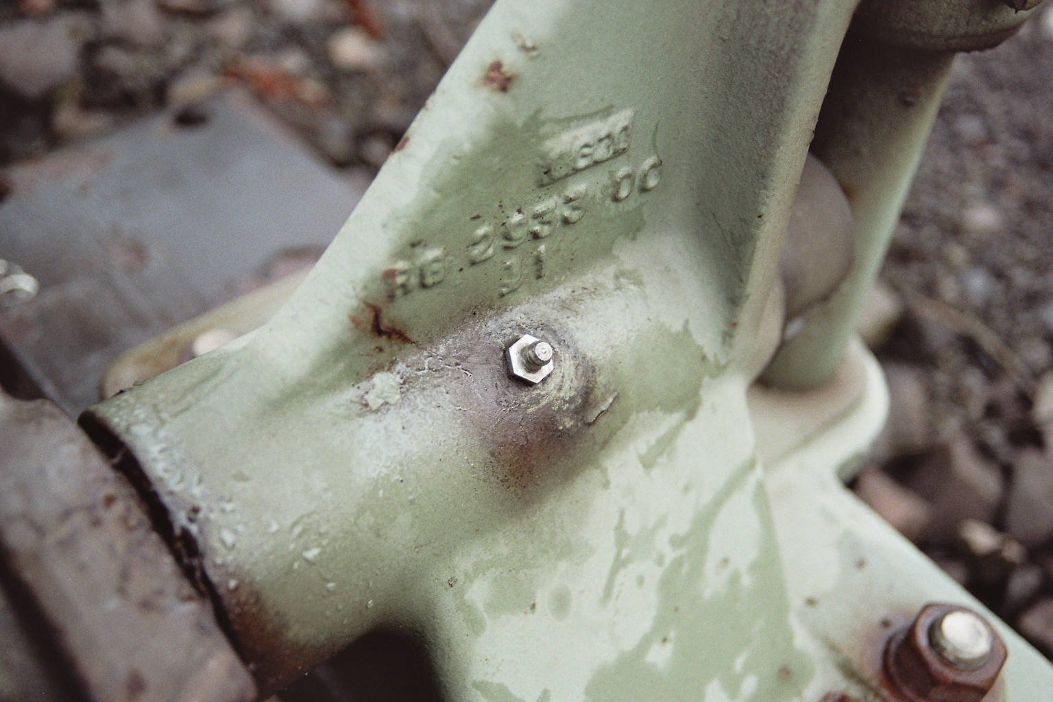 Grease fitting on a bearing. (A lubricating nipple of a machine part.)